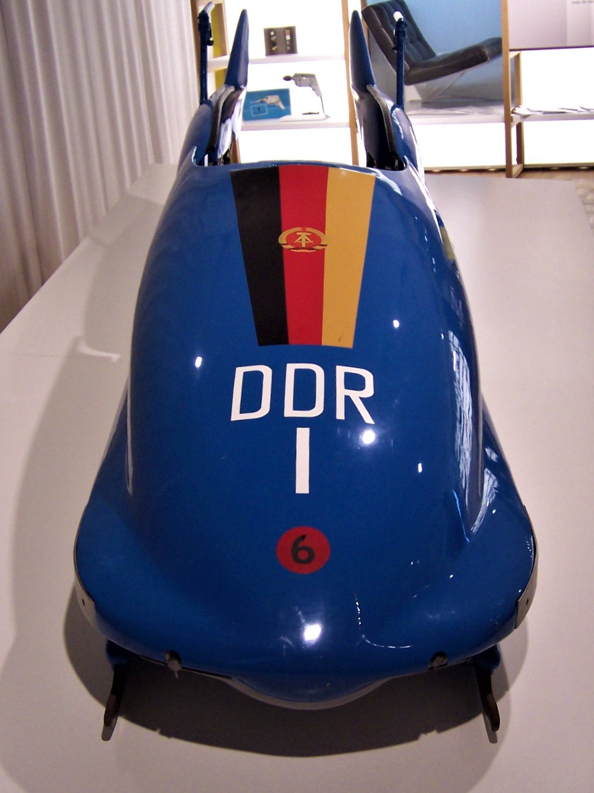 Communist East Germany dominated the bobsleigh in the 1970s and 80s, winning gold at Lake Placid in 1980 in this sled. In an exhibition of East German design in Leipzig, which was in the former East Germany. DDR stands for Deutsche Demokratische Republik - German Democratic Republic. Despite the name it was anything but democratic. It was a repressive communist dictatorship.